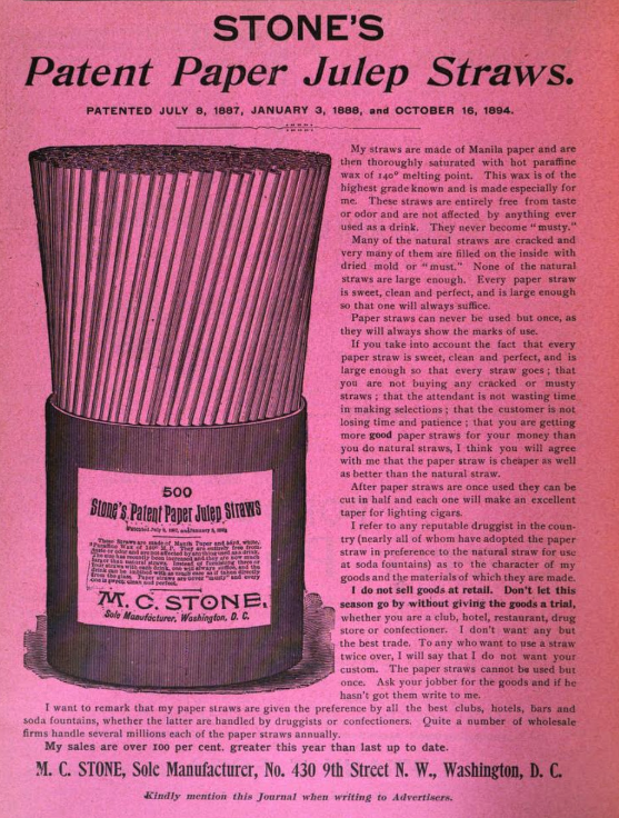 1895 advertisement for Stone's Patent Paper Julep Straws from American Druggist and Pharmaceutical Record